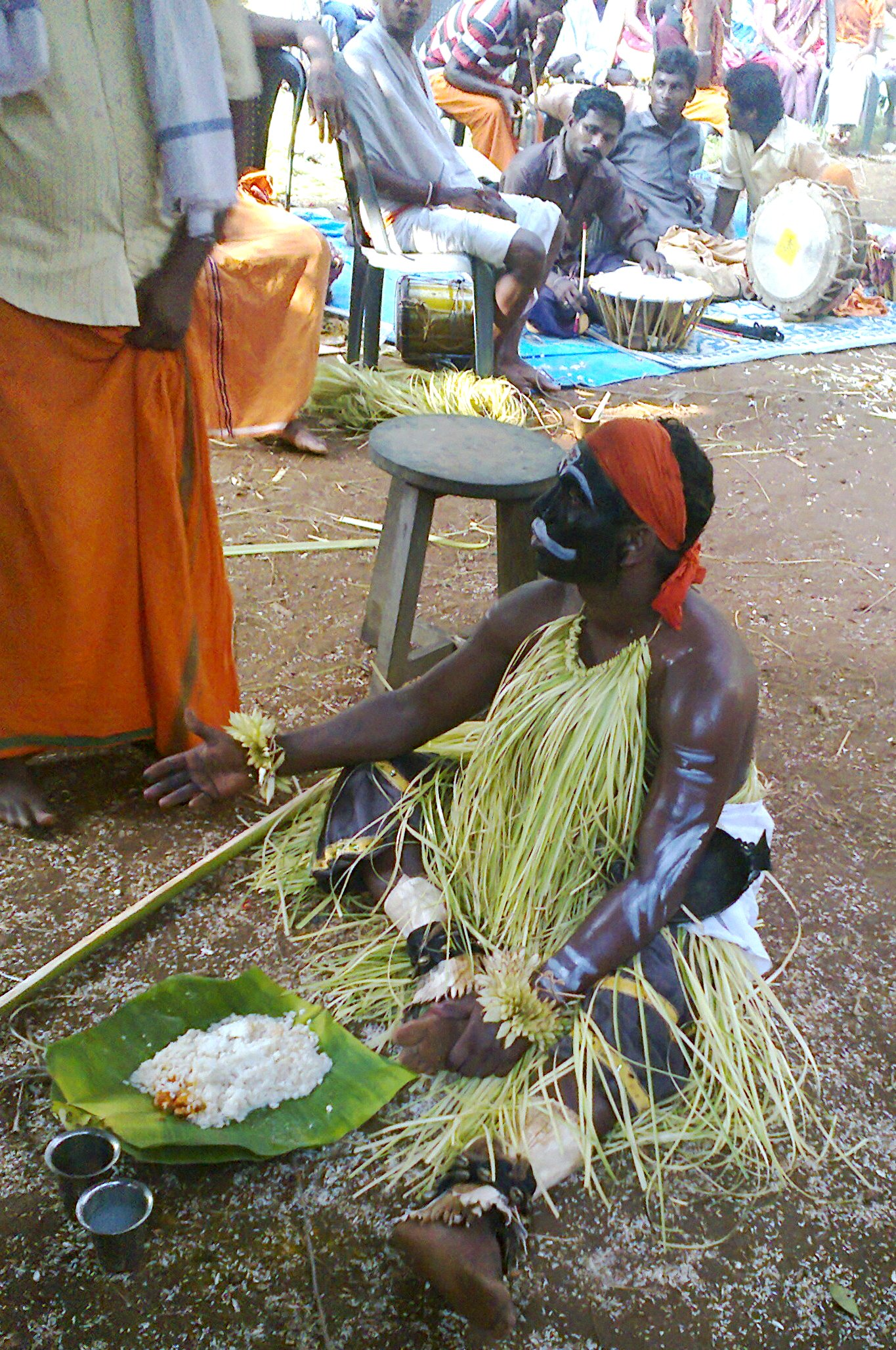 koraga in tulunadu